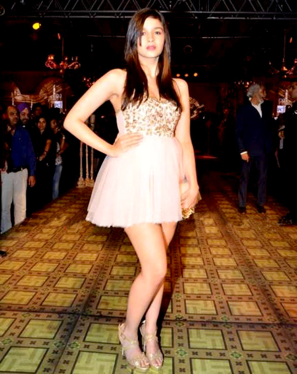 Alia Bhatt & Karan Johar at PCJ Delhi Couture Week 2012